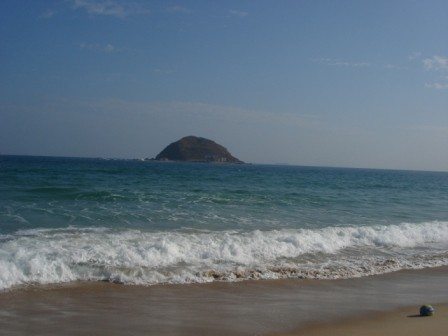 Western red beach